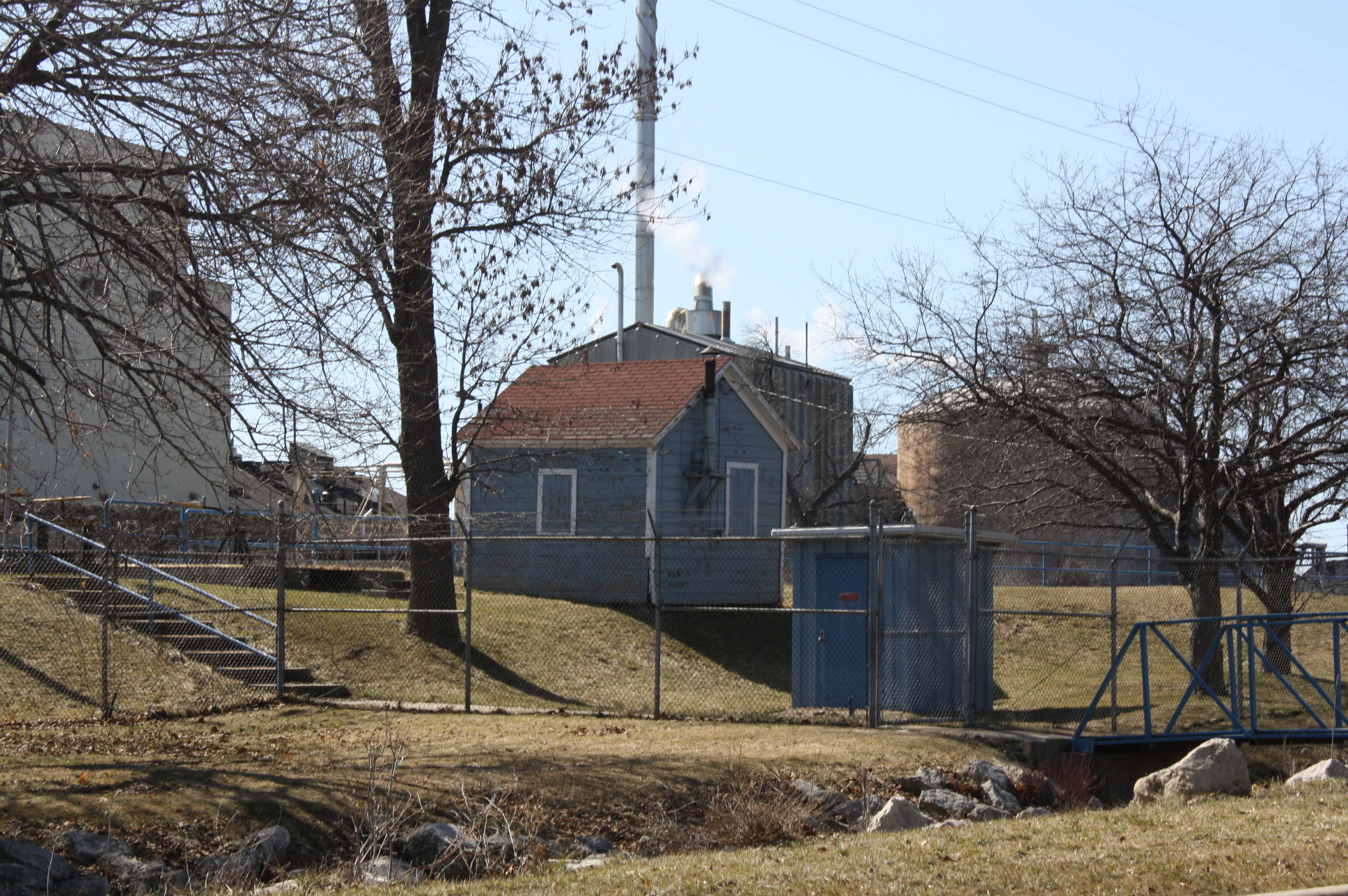 The Kaukauna Locks Historic District in Kaukauna on the Fox River, listed on the National Register of Historic Places.